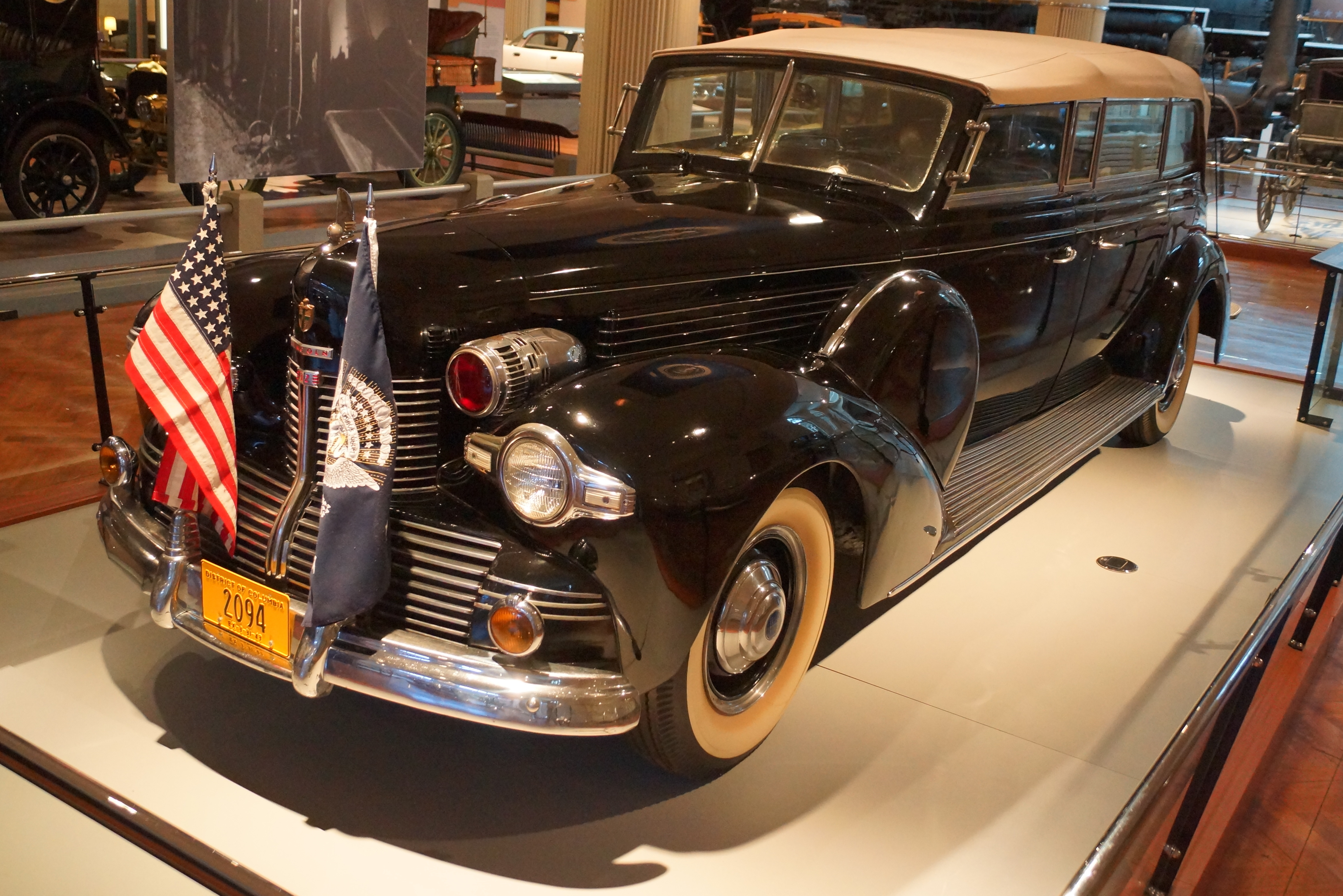 I drove to Detroit, to visit the Walter P. Chrysler Museum, before it closed, to be converted into office. I arrived on Friday and the Chrysler Museum was not open until Saturday, so I went to the Henry Ford. I heard great things about it and I was not disappointed. There was not near enough time to check out all the place has to offer. I will have to return to spend more time and check out other features during the warmer seasons. Most of my time there was spent in the automotive displays. The Henry Ford is a large indoor and outdoor history museum complex and a National Historic Landmark in the Detroit suburb of Dearborn, Michigan, USA. Address: 20900 Oakwood Boulevard, Dearborn, MI 48124 Year built: 1929 Founder: Henry Ford Added to NRHP: December 21, 1981 Click here for more car pictures at my Flickr site. Or here for my Car Crazy Tumblr site.